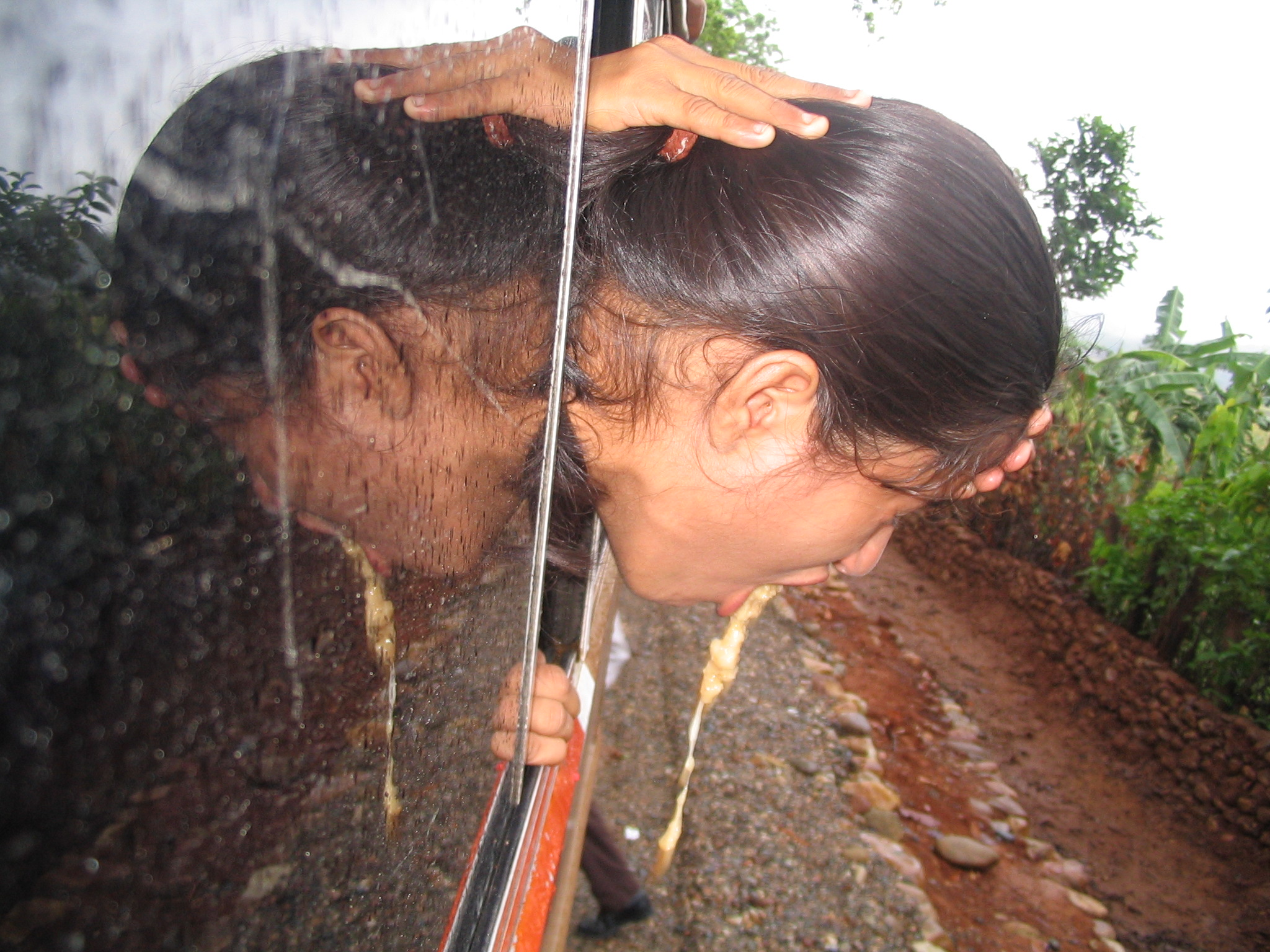 common problem in nepal while traveling in Nepal